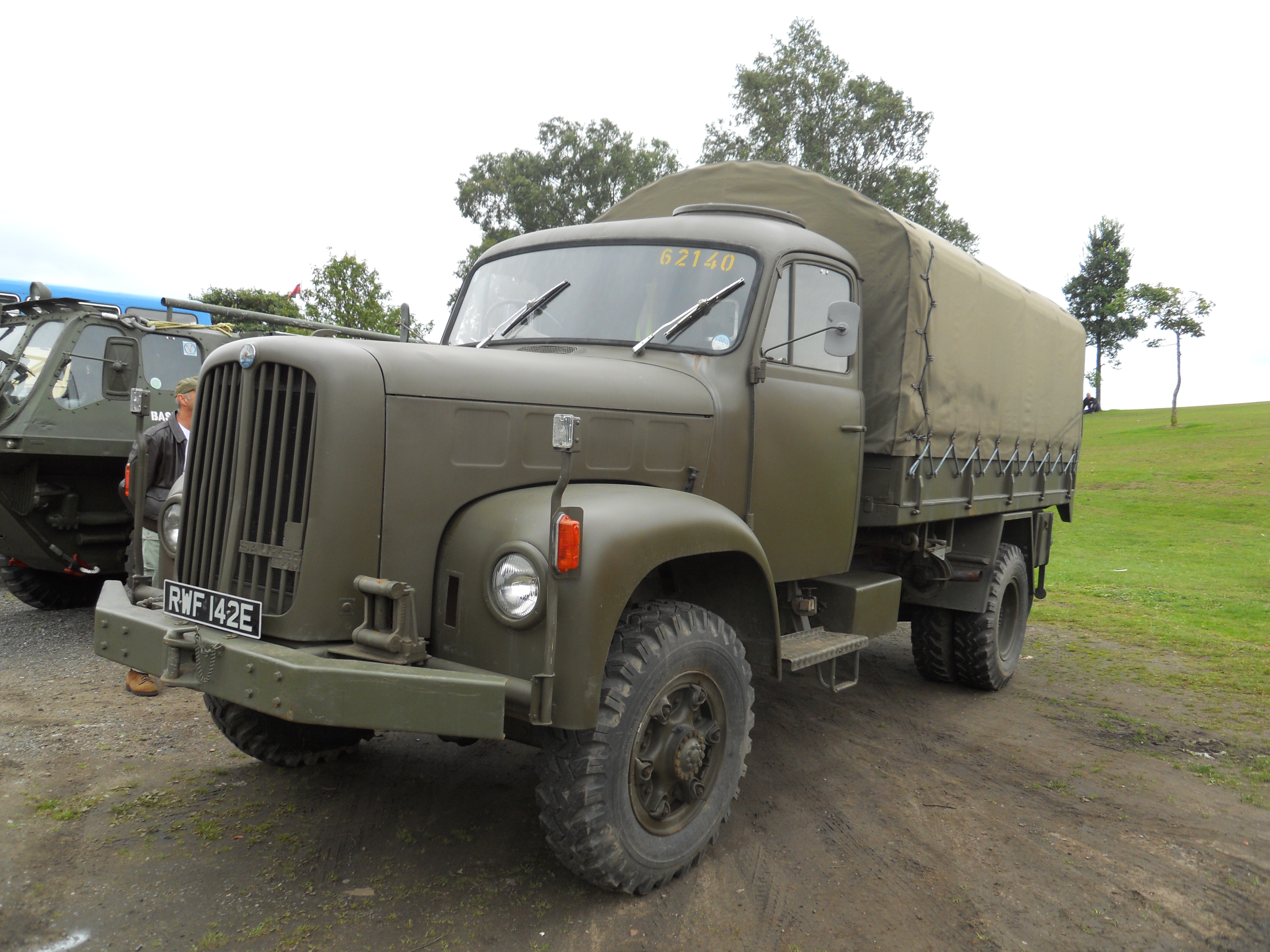 Seen at Heaton Park during last September's Trans Lancs Rally event. Don't know much about military vehicles generally although this may of been part of the British army (as it's a right-hand drive). It's seen carring a pre-1974 East Yorkshire registration (which the "WF" mark was later given to Sheffield after 1974)